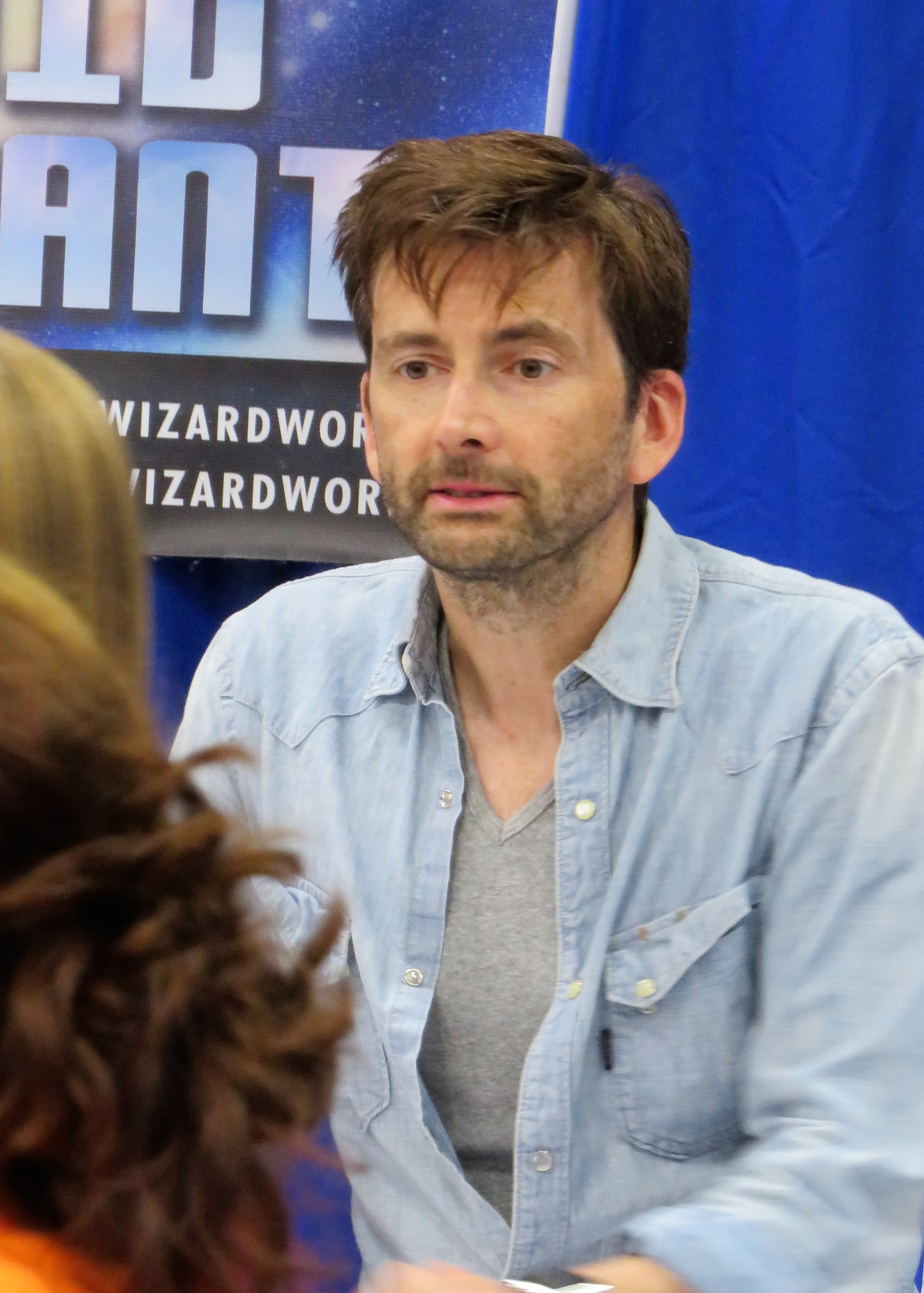 The many expressions of David Tennant